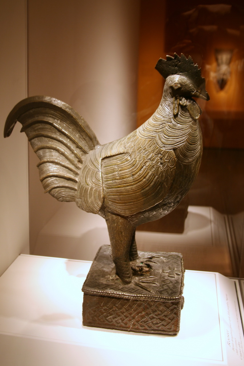 Rooster, Benin kingdom court style, Edo peoples, Nigeria, 18th century, Copper alloy This rooster displays the extensive use of surface patterns and the technical expertise in lost-wax casting that typifies the great works of the Benin kingdom court brass casters. The rooster in folklore, household and court life can be a sacrificial animal as well as a champion, the leader of the barnyard, and a spy, and is used in anti-poisoning charms. Its name is given to the king's senior wife, the one in charge of the women. This quality of dominance is important-in proverbs and rituals, the rooster must be mature enough to have developed spurs. It is possible rooster figures were once used on shrines dedicated to queen mothers or those queen mothers who were once senior wives, just as wood hens still appear on the altars to chiefs' mothers. (National Museum of African Art)